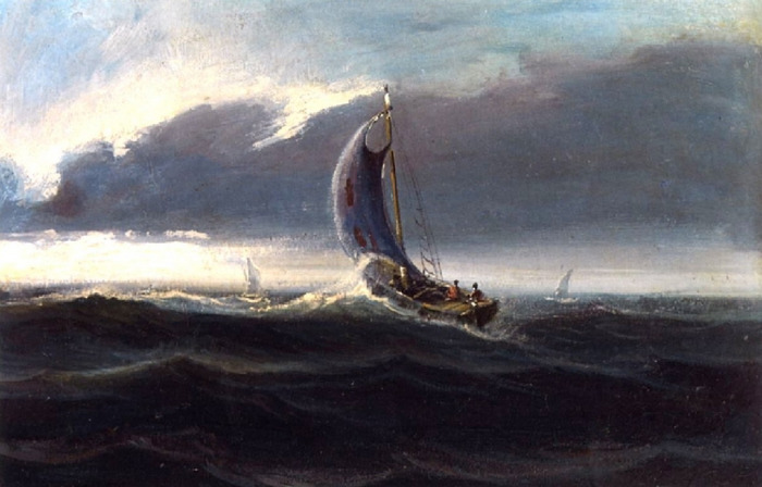 Georgios Stratigos : Sea.